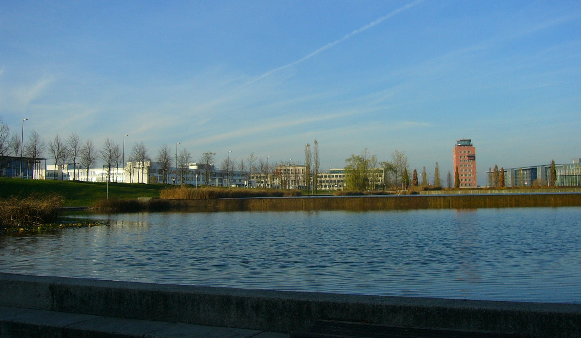 Messesee in Messestadt Riem, right of the main entrance of Neue Messe München, in the background you see the former air traffic control tower of the old Airport Riem.